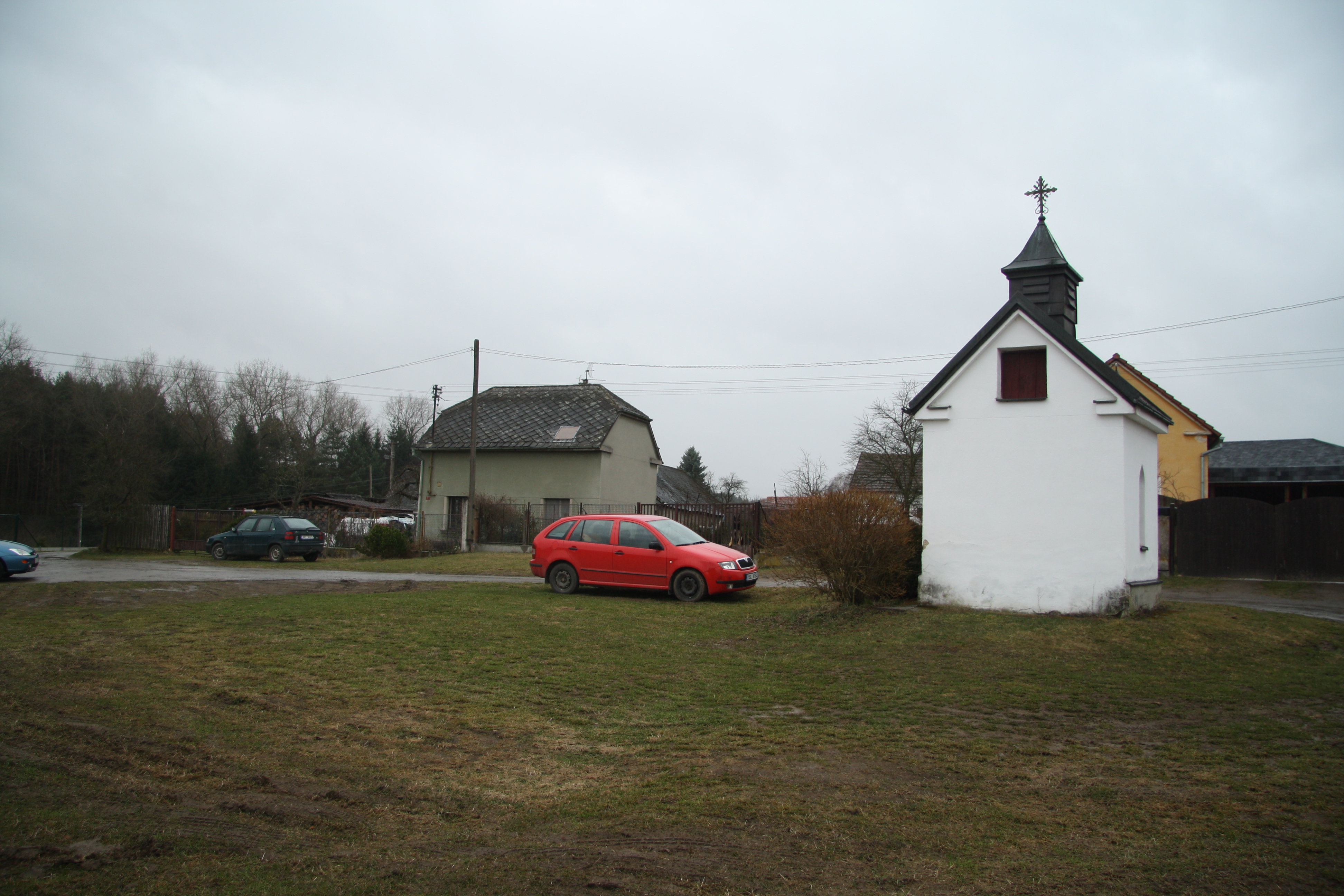 Center of Lipiny u Radošovic, Radošovice, Benešov District.